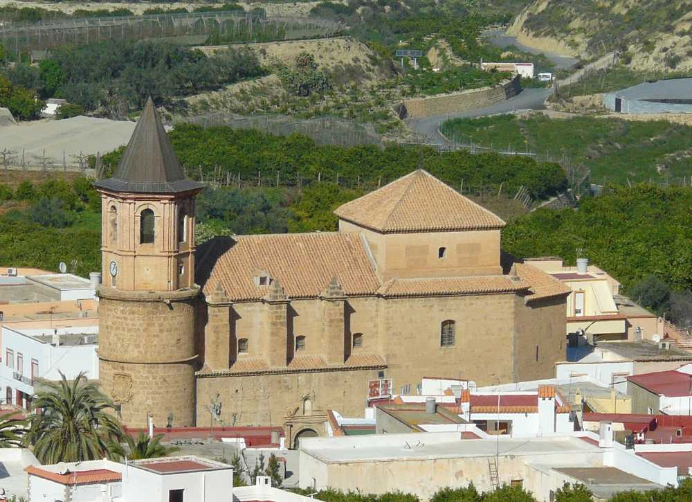 Convento de los Agustinos de Huécija (Almería-España)